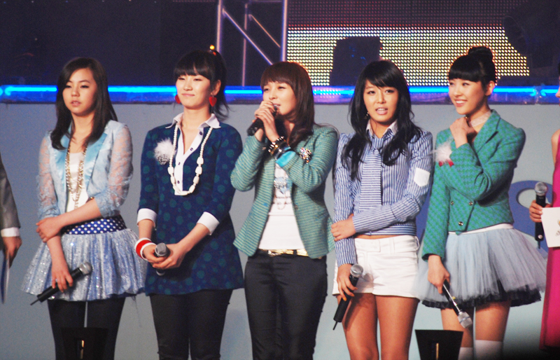 The Wonder Girls at the M Star Concert, held at Cham Sil Multiplex Gymnasium.